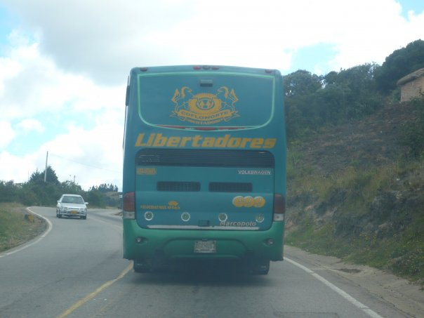 Marcopolo Andare Class bus (#699) with Volkswagen Volksbus 18.310 OT chassis in Colombia. Libertadores operator.